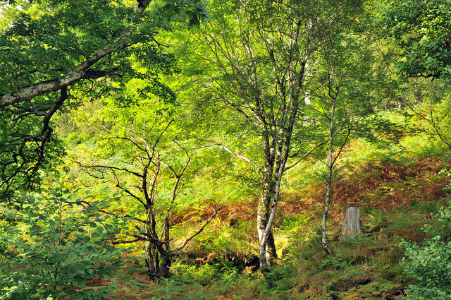 Deciduous woodland near Loch Sunart